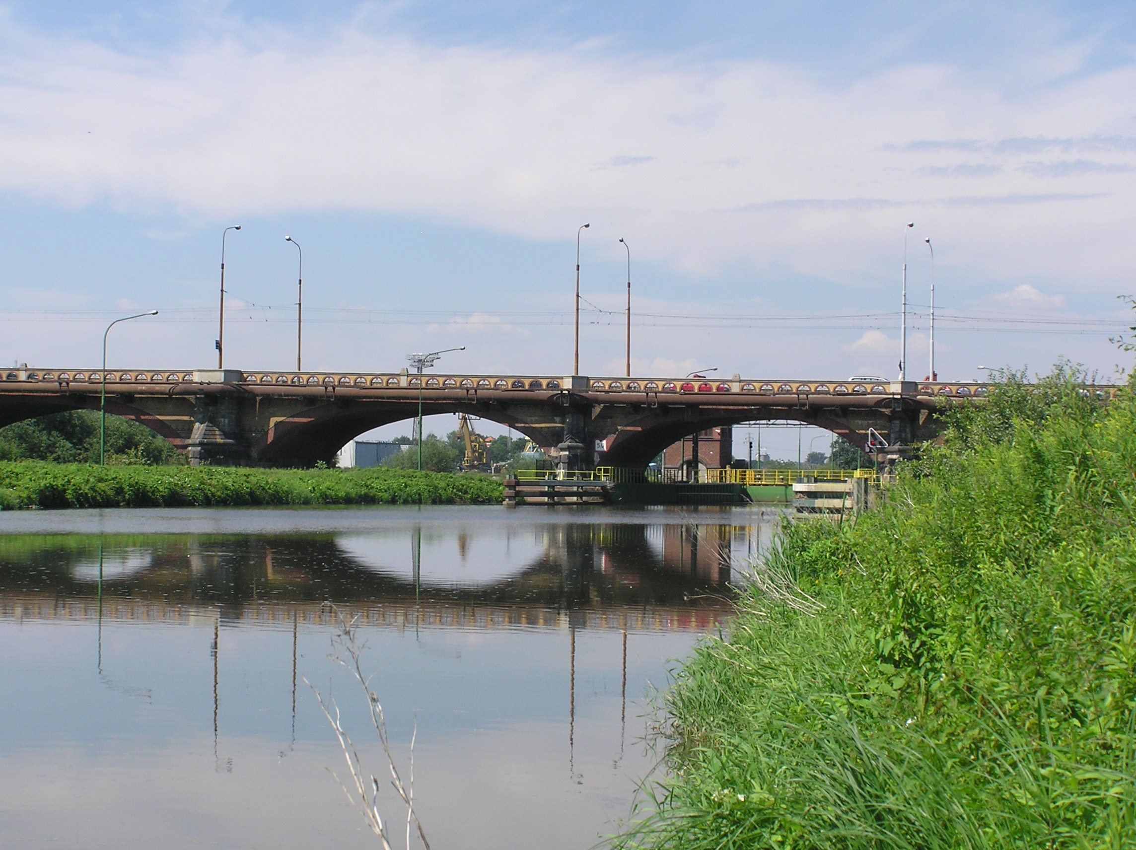 Wrocław, Oder River, Różanka Canal, Różanka Lock (and Osobowicki Bridge)